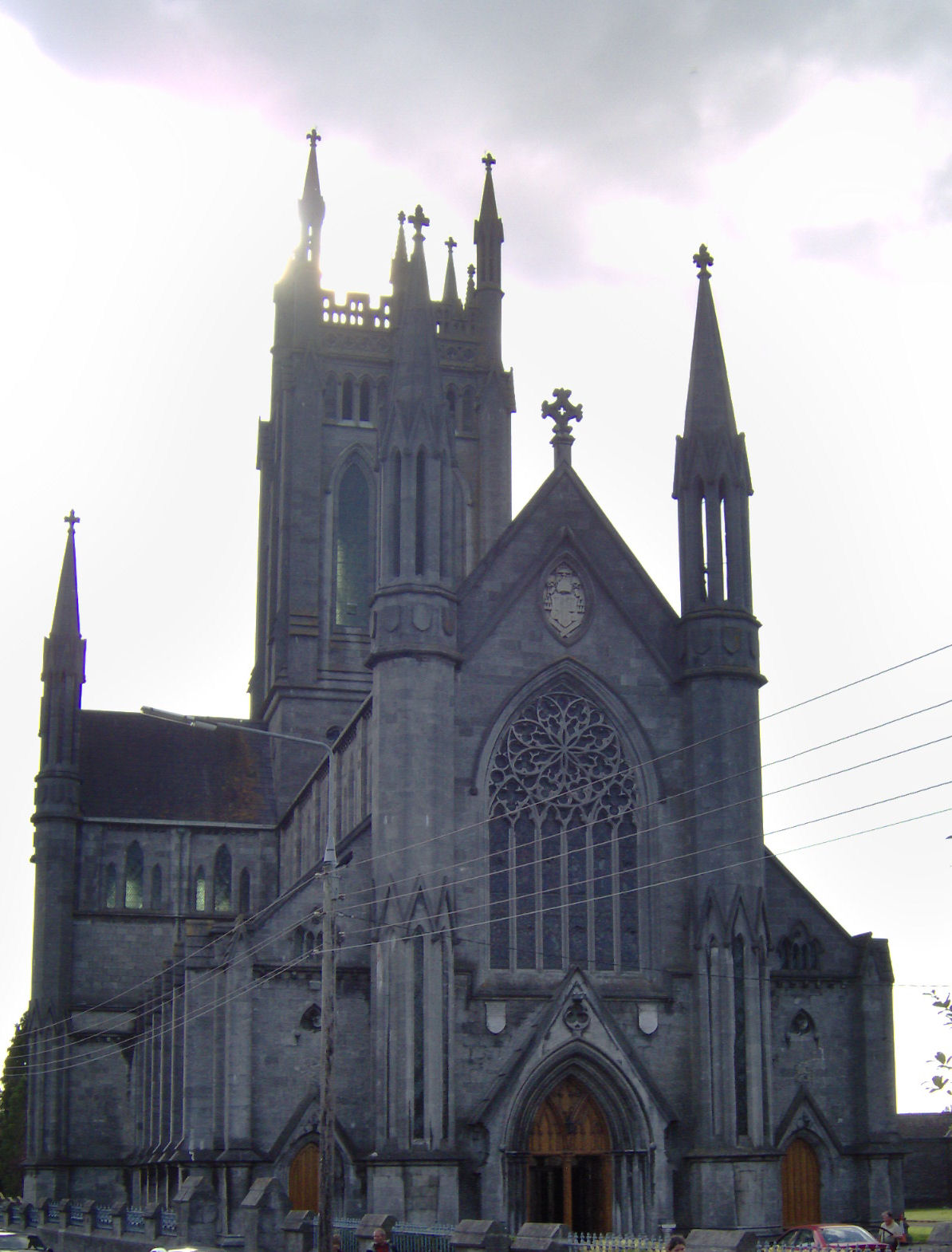 Saint Mary's Cathedral